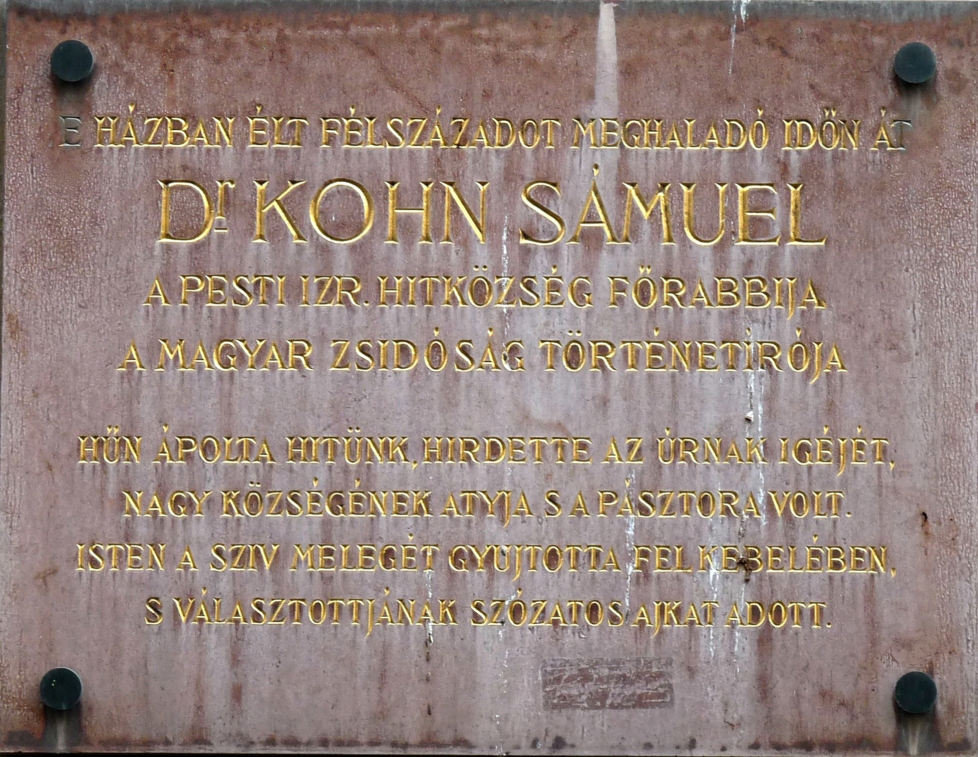 Sámuel Kohn (1841–1920) commemorative plaque in Budapest District VII, Holló Street No 4.